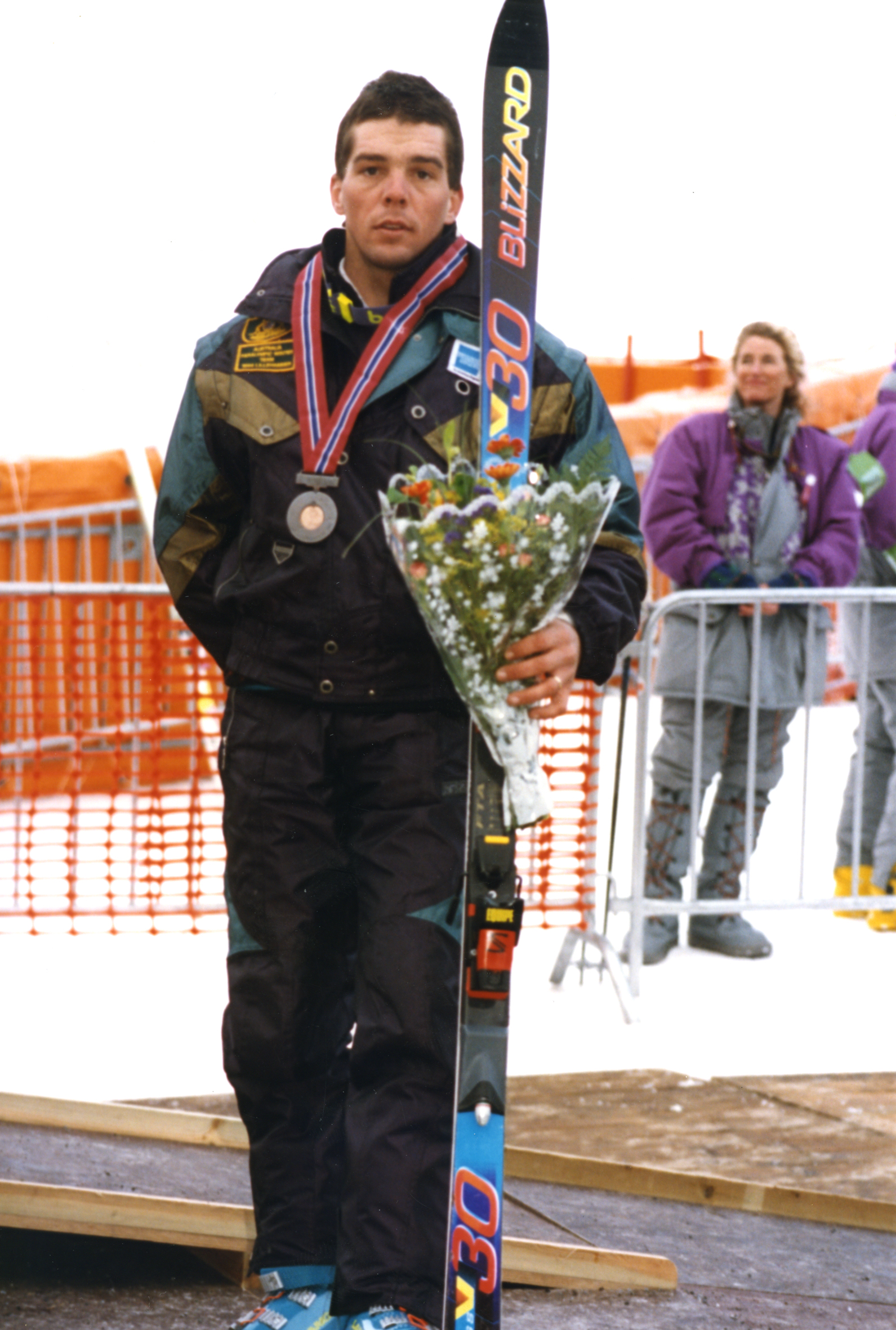 Australian Paralympic athlete James Patterson at the 1994 Lillehammer Winter Games